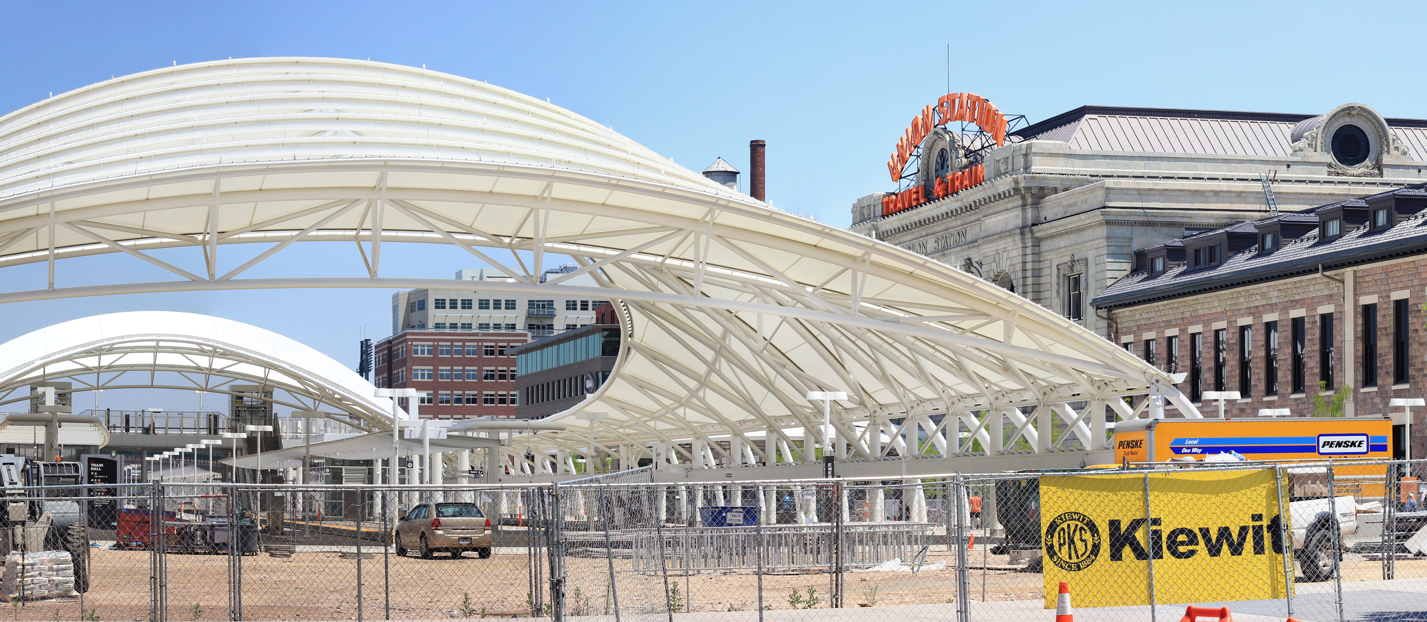 A view east towards Union Station, the open air train hall, and surrounding construction.